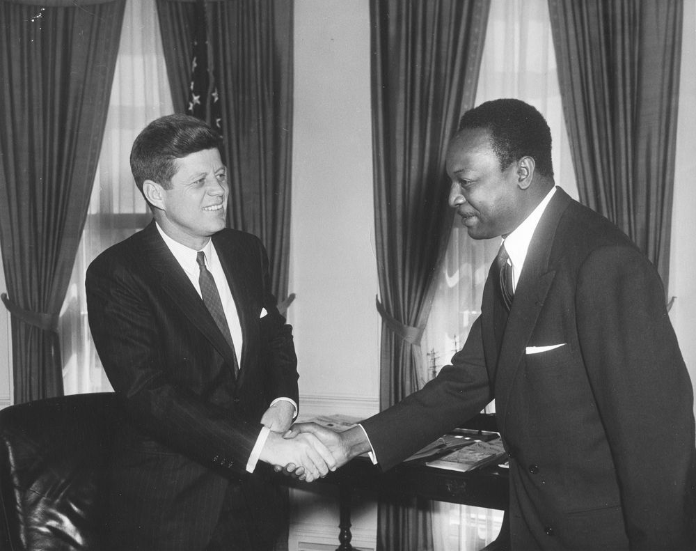 President John F. Kennedy meets with Nigerien Ambassador to the United States Issoufou Saidou Djermakoye in the Oval Office, White House, Washington, D.C.